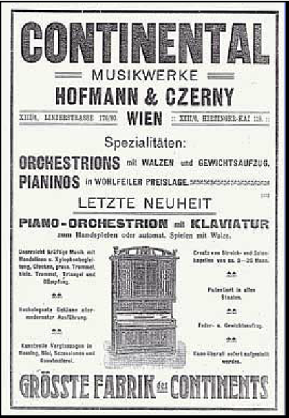 Hofmann Continetal orchestrion